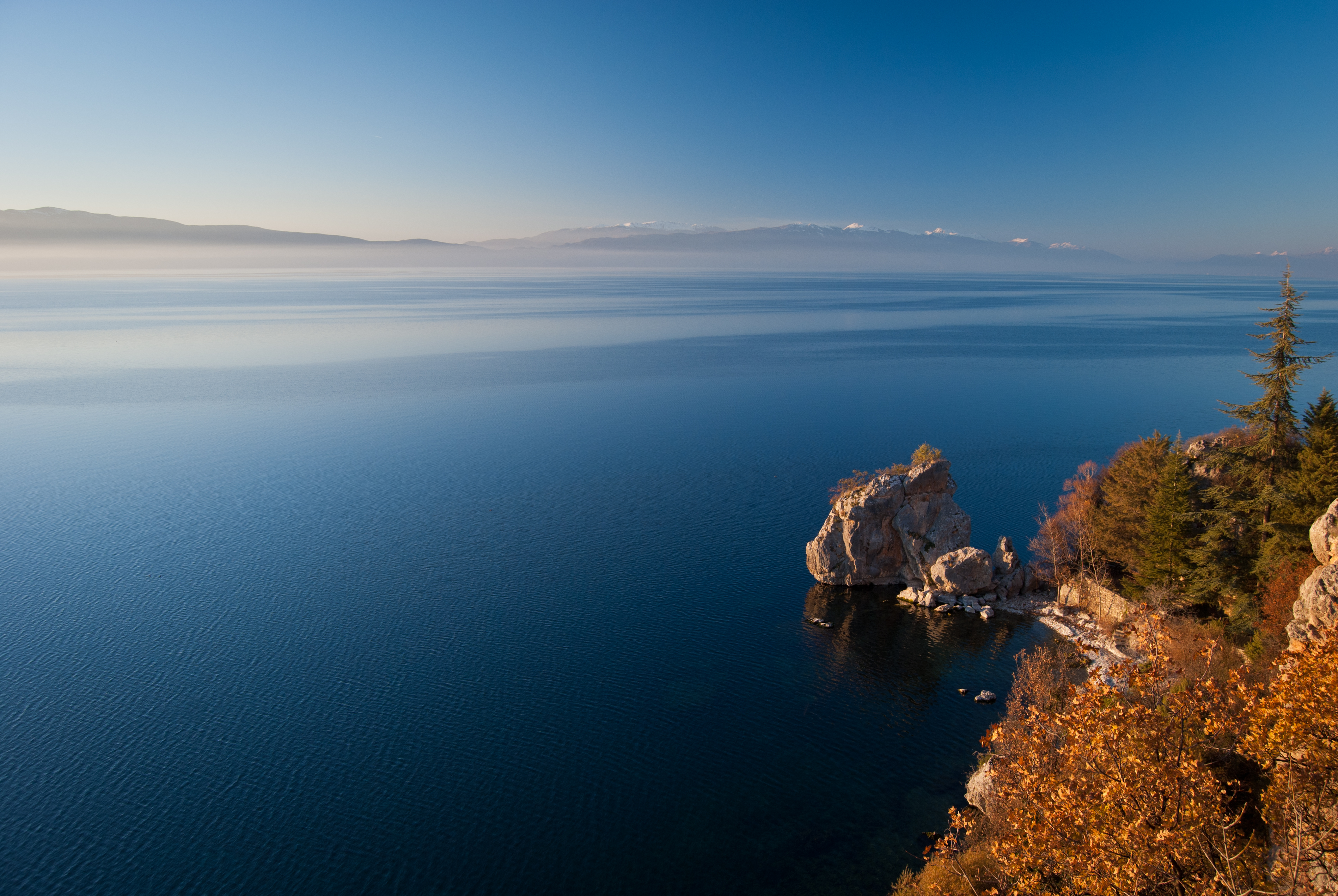 Lake Ohrid with near the village of Trpejca, Macedonia